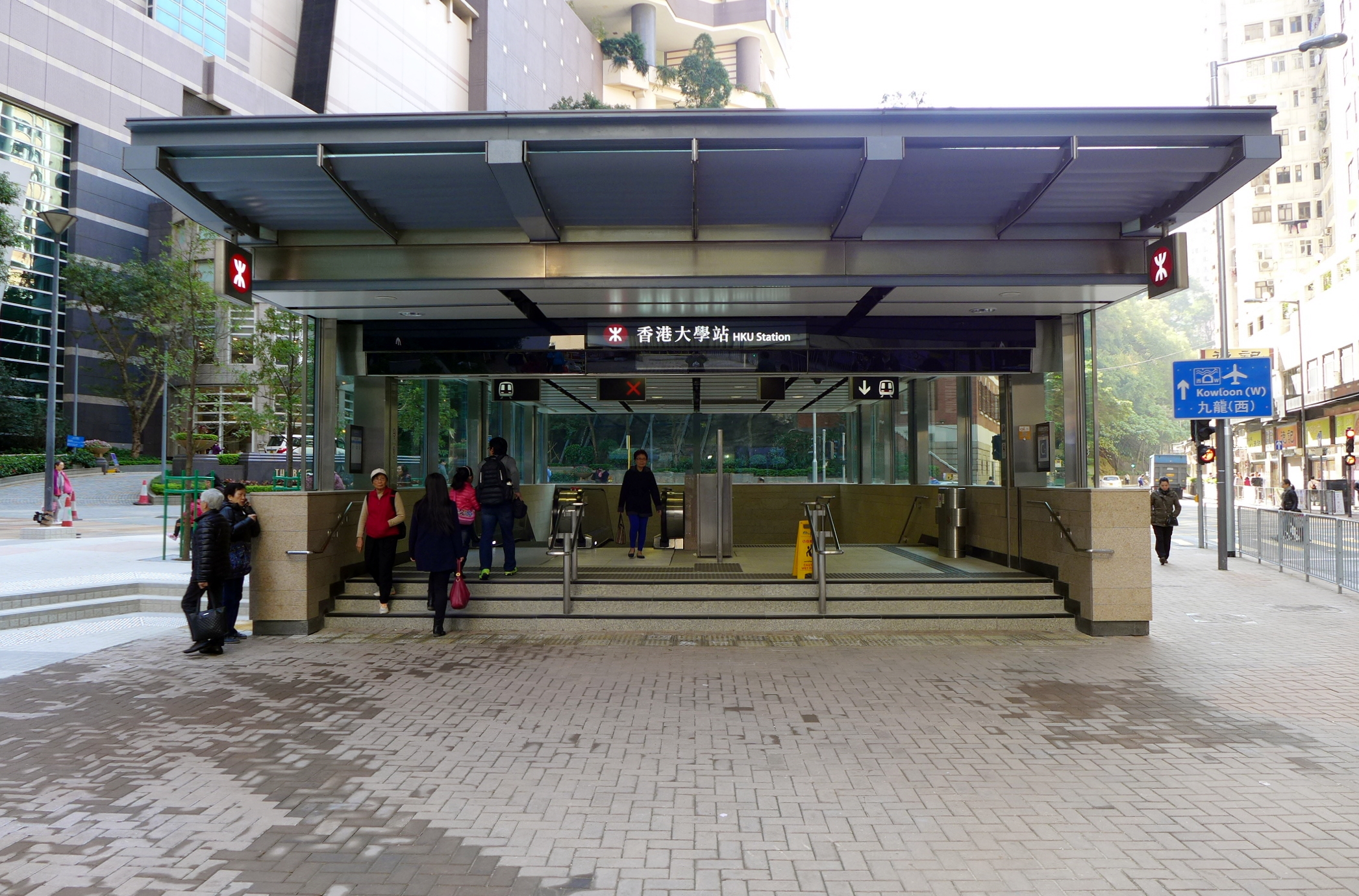 HKU Station Exit C2